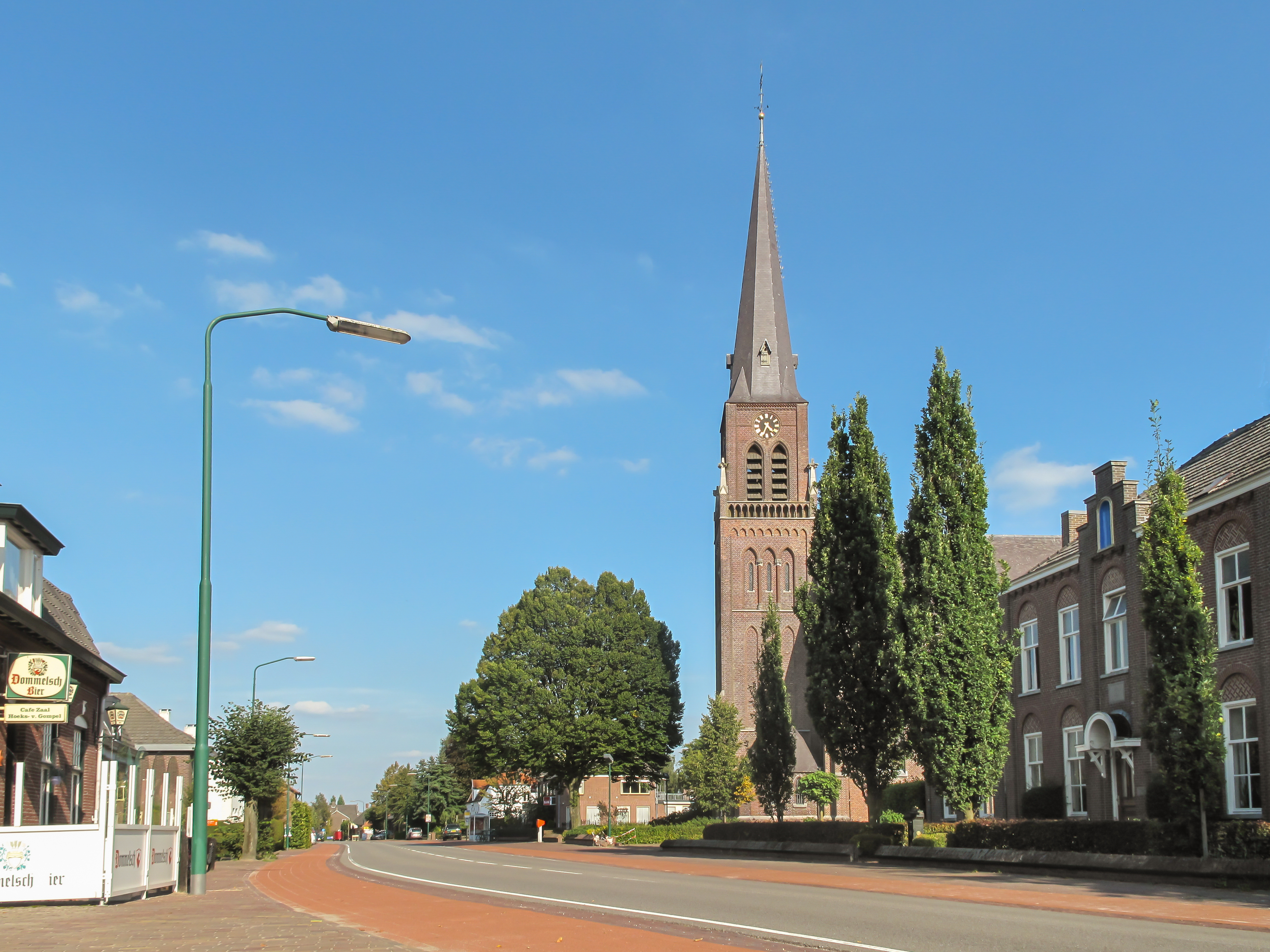 Bergeijk, church: Sint Petruskerk